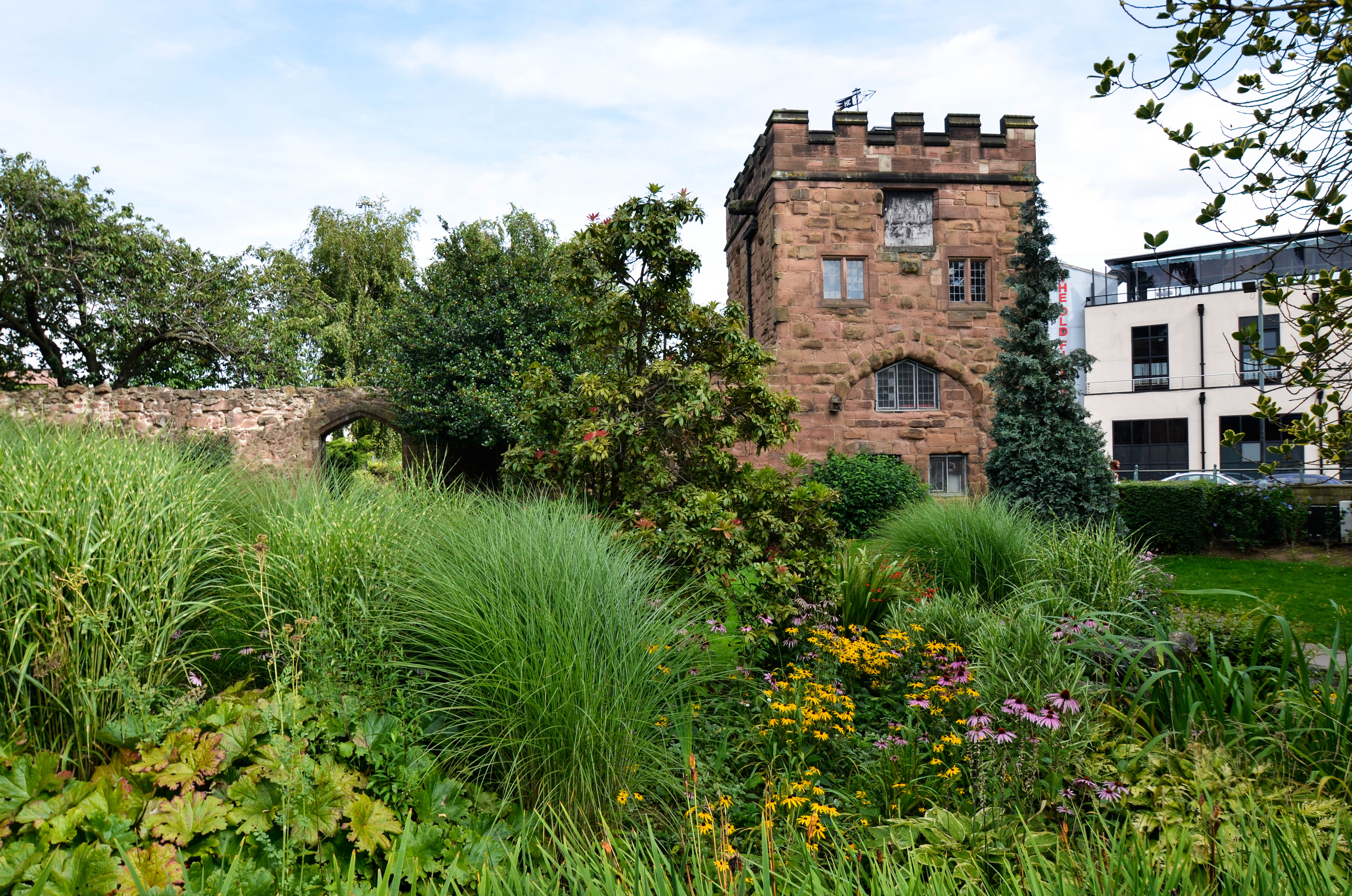 A8 - Lady Herbert's Garden in Coventry, UK